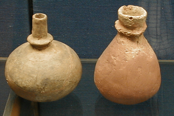 own photograph, 2000